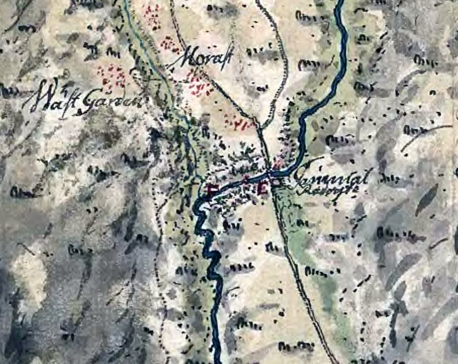 Detail from map over the road between Eda sconce and Norwegian border, from 18th century, showing defences at Morast bridge. E) Morast bridge and old redoubt. F) Comfortable, big and shallow ford.